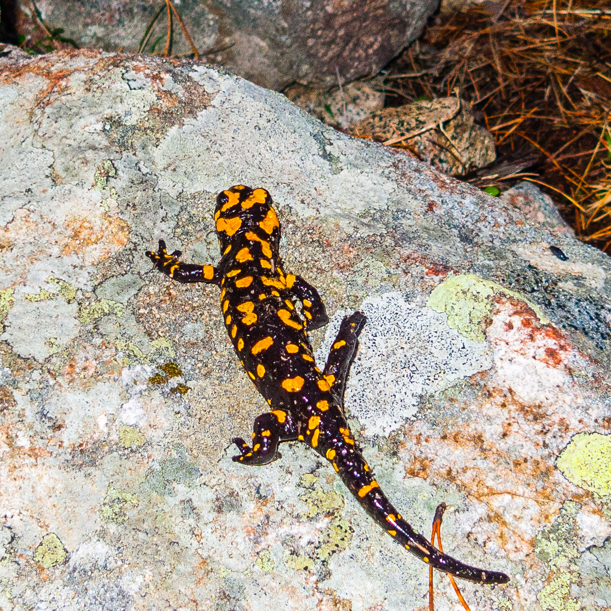 Adult Salamandra corsica, photographed near Evisa (Corse-du-Sud, Corsica) on a rainy early autumn day.